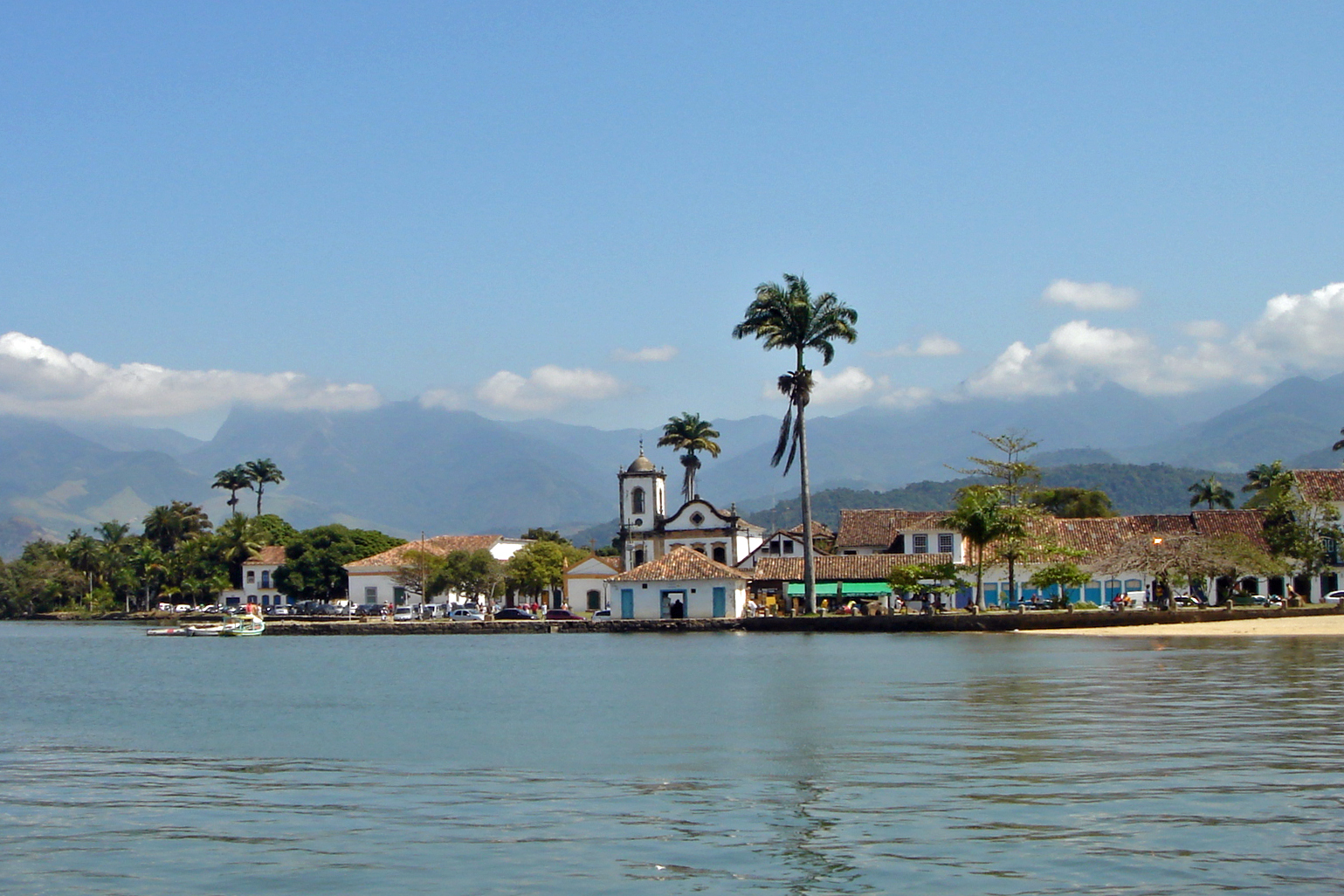 Parity, Rio de Janeiro, Brazil